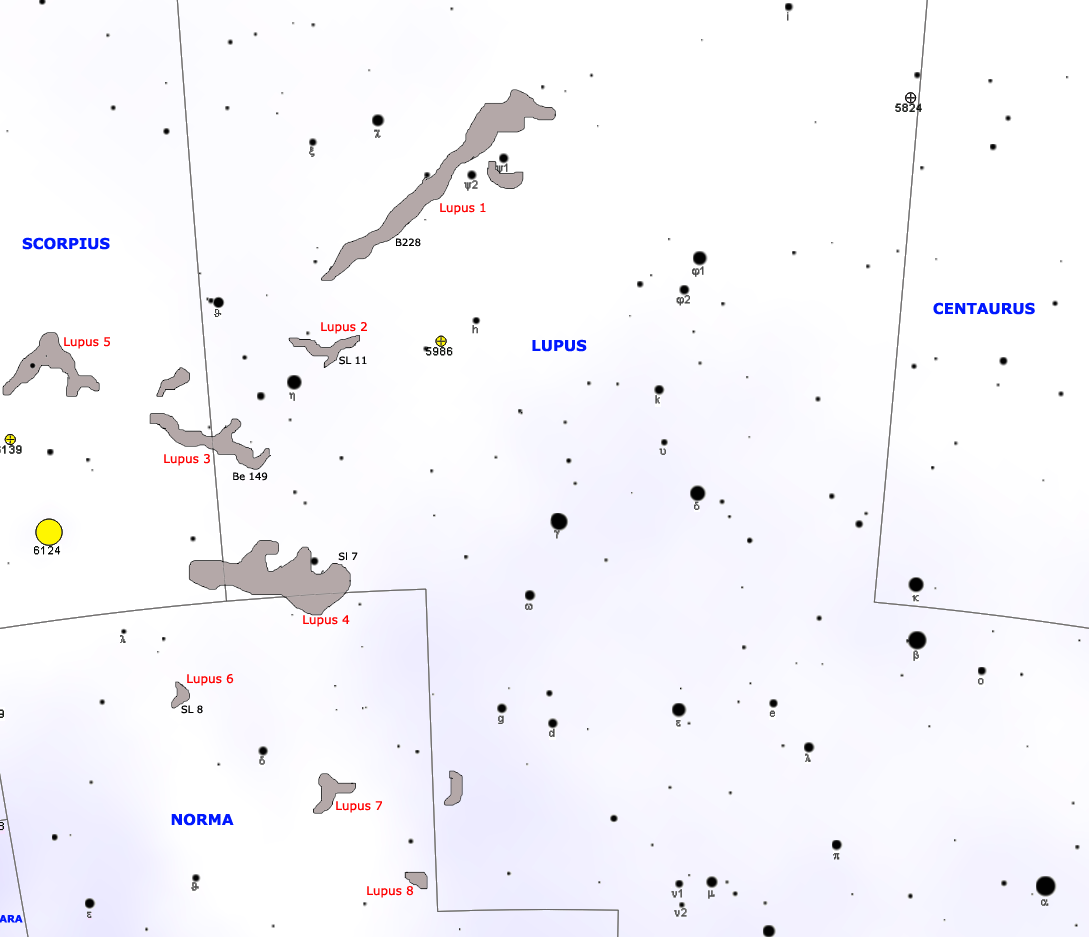 Detailed map of the Lupus Cloud.